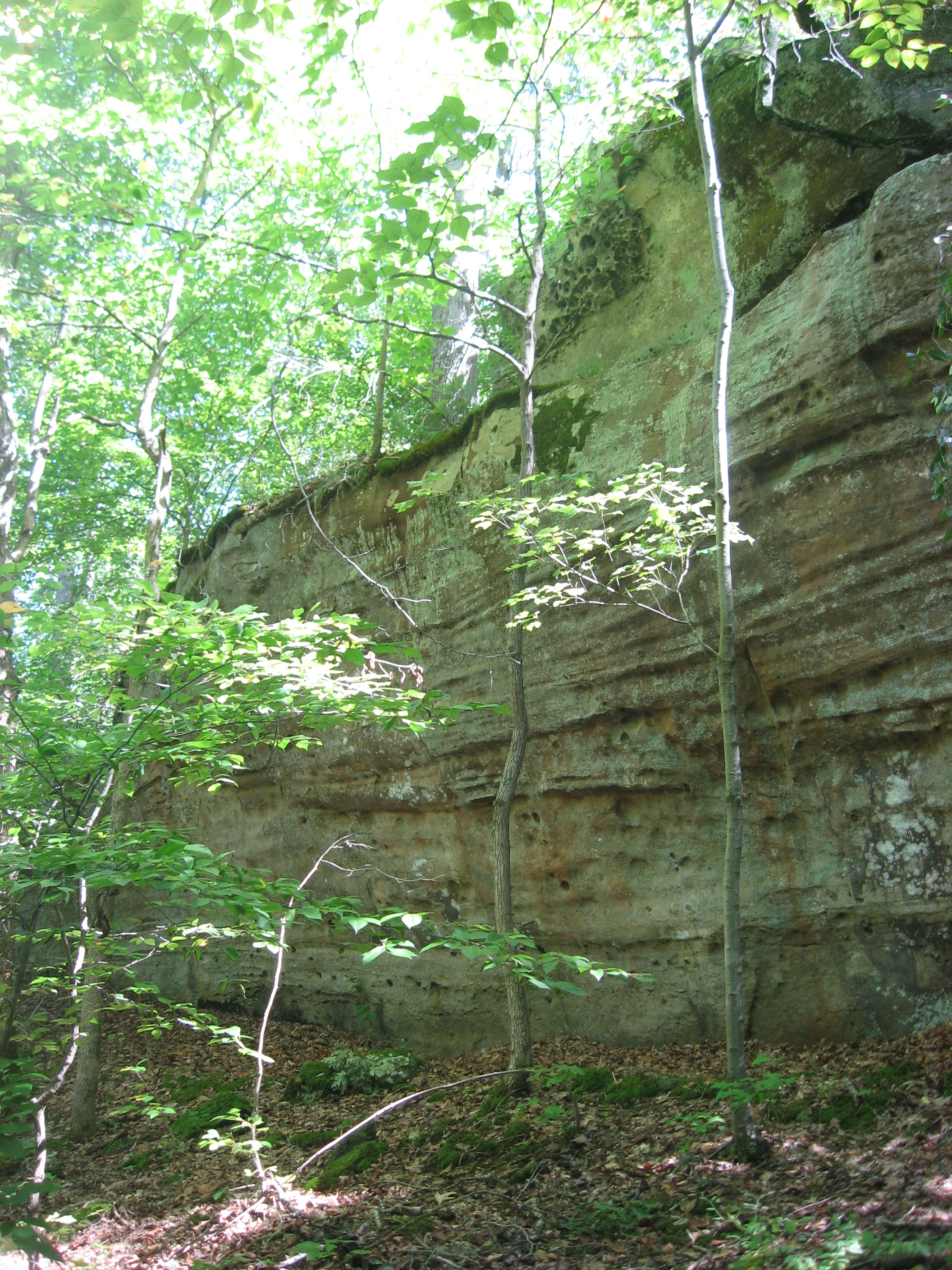 Overview of the main cliff at the Piney Creek South Site, a major petroglyph site in the Piney Creek Ravine State Natural Area east of Chester in Randolph County, Illinois, United States. Unfortunately, photography cannot easily depict any of these petroglyphs. The site has been designated an archaeological site and is listed on the National Register of Historic Places.